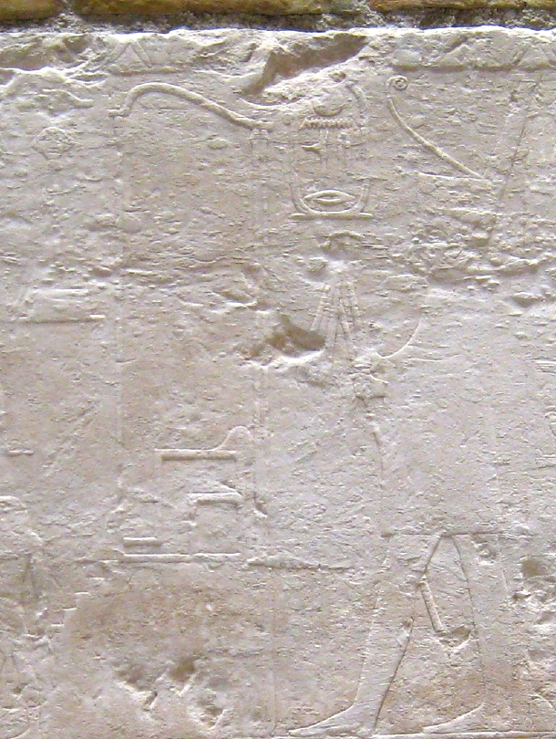 Relief of the « Heb-Sed » festival of Nyuserre - Sun temple of Nyuserre Ini - 5th dynasty of Egypt - Egyptian museum of Berlin